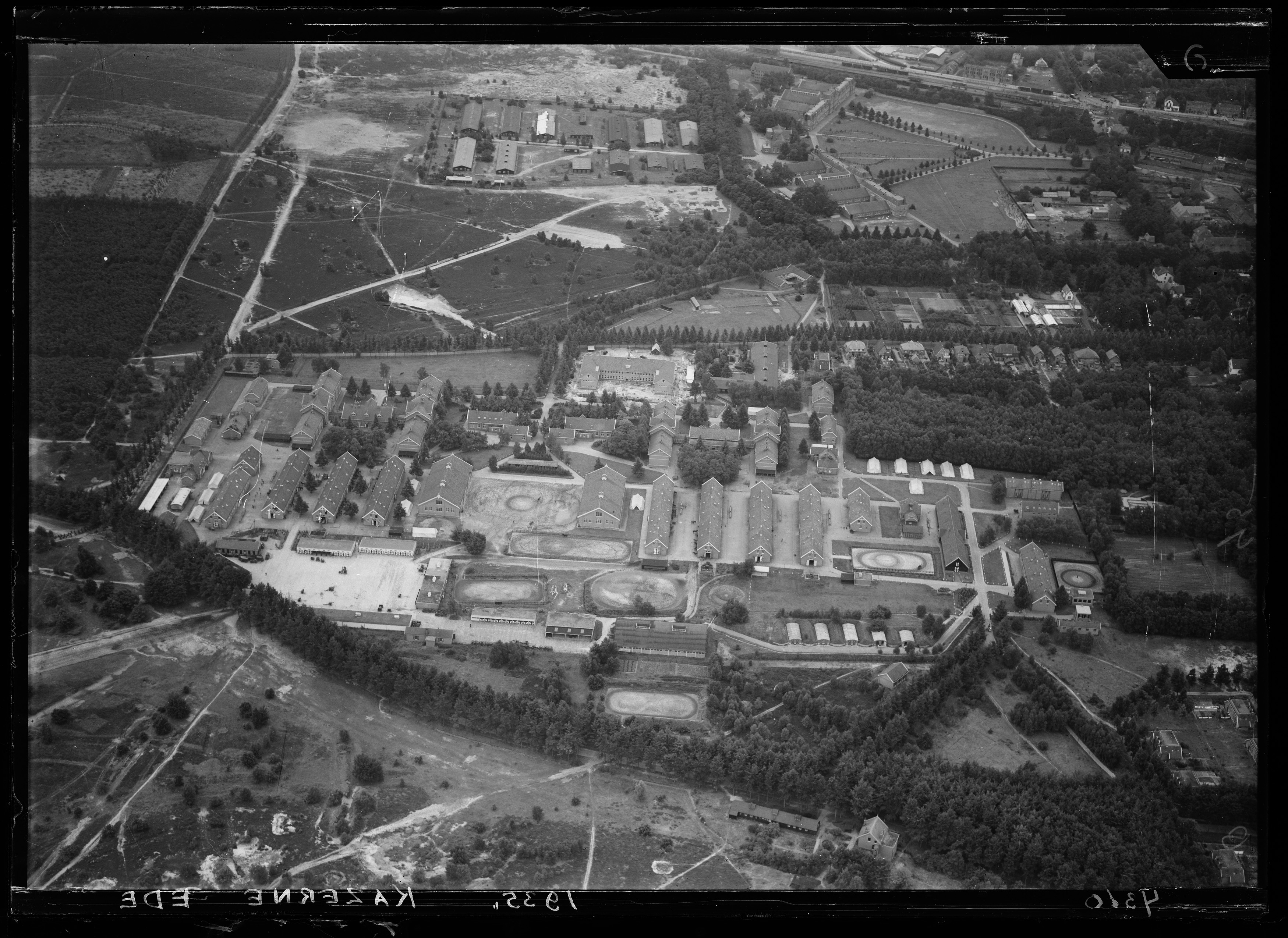 Aerial photograph of Ede, The Netherlands. Army barracks: Van Essenkazerne, Arthur Koolkazerne, P.L. Bergansiuskazerne, Johan Willem Frisokazerne, Mauritskazerne. In the upper right corner a part of railway station Ede-Wageningen.